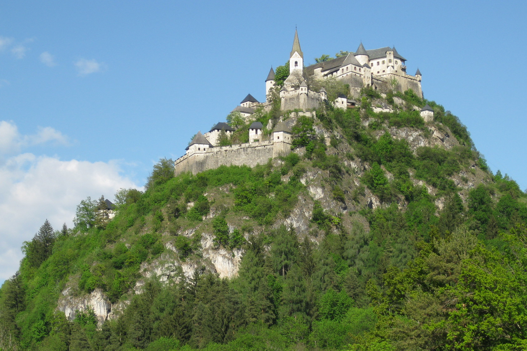 Hochosterwitz castle (slovenian: grad Ostrovica), castle in Carinthia state, Austria